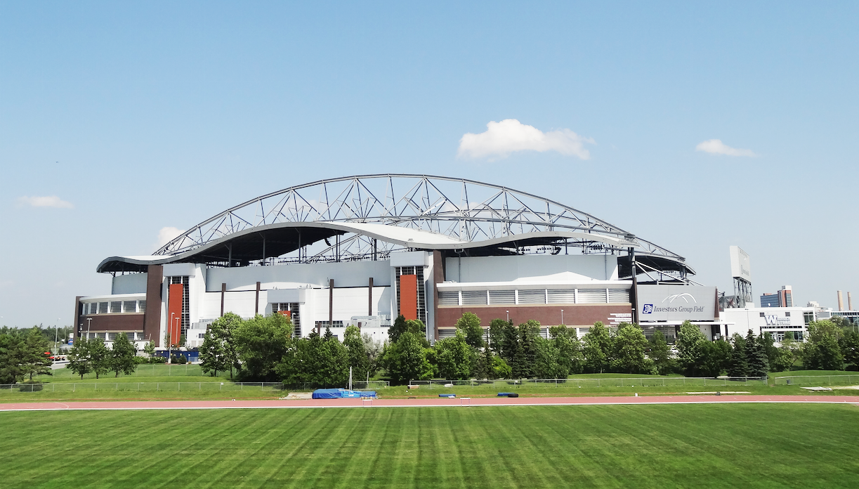 A crop of a photo I took of Investors Group Field from the athletics field at the University of Manitoba